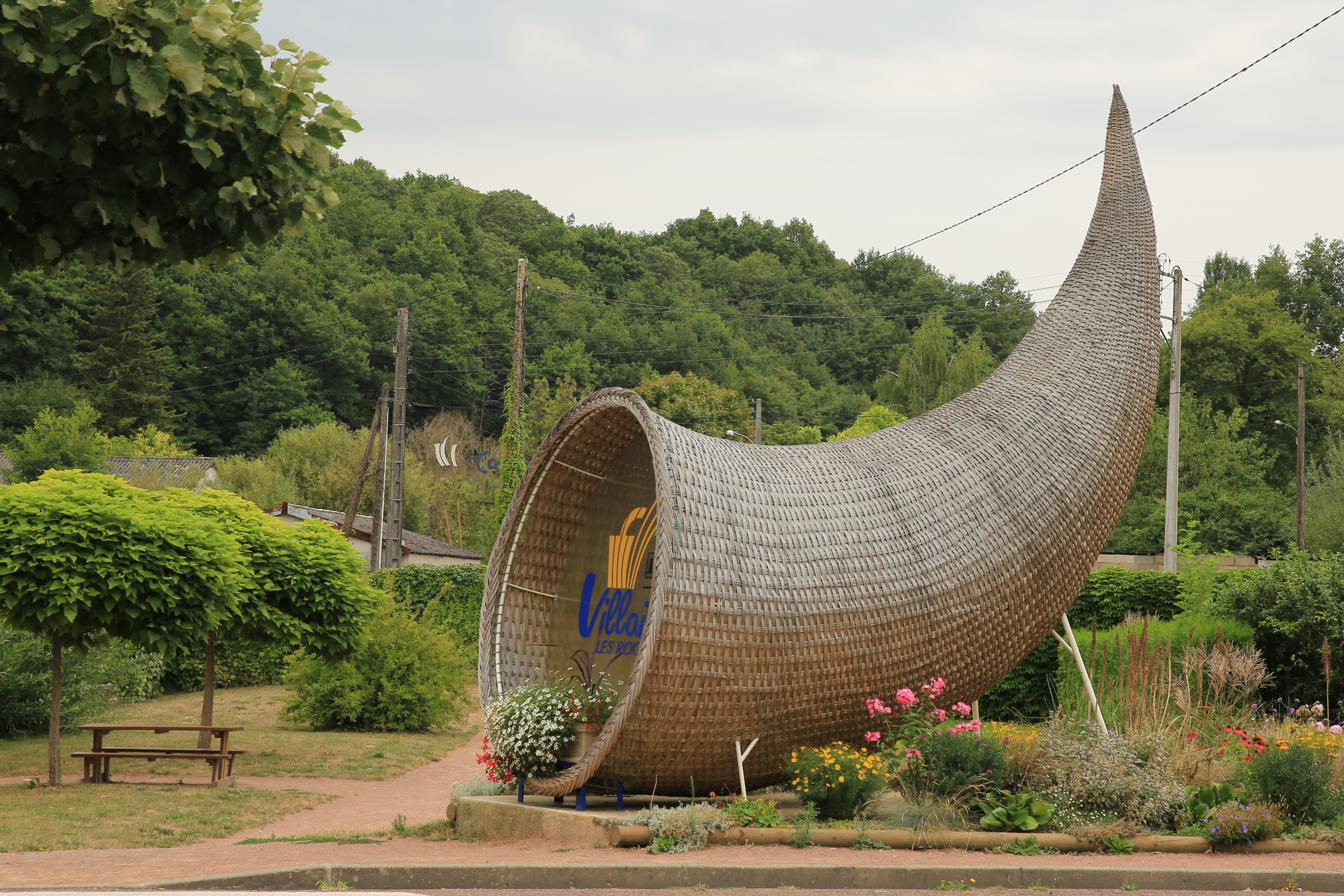 Cornucopia in the village of basketry, in Villaines-les-Rochers